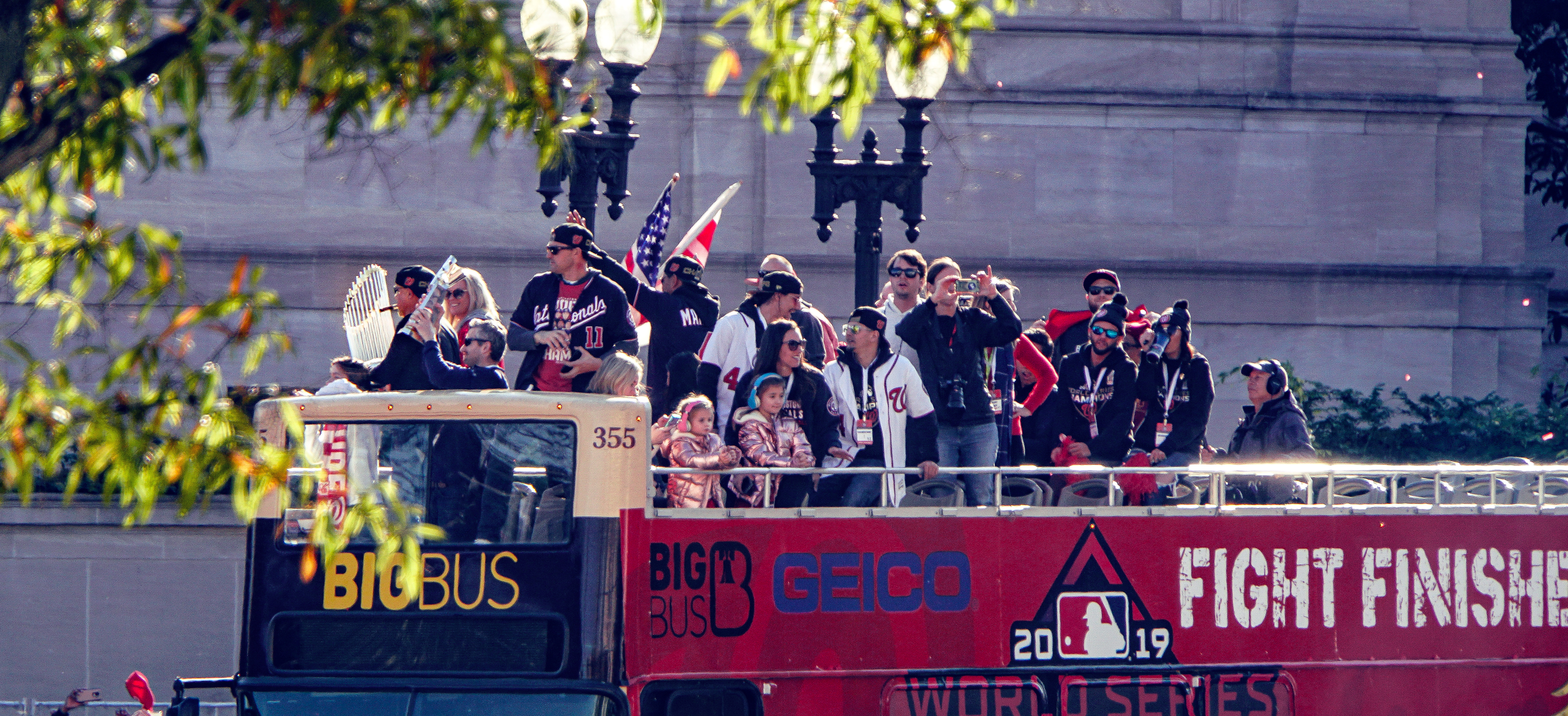 2019.11.02 Washington Nationals Victory Parade, Washington, DC USA 306 61031